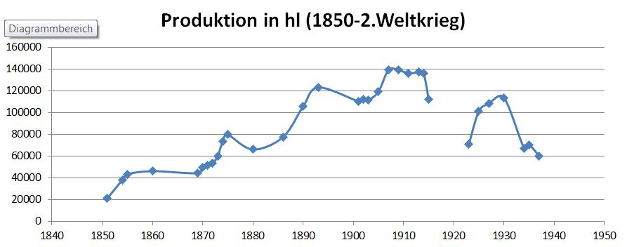 Hofbräu Kaltenhausen